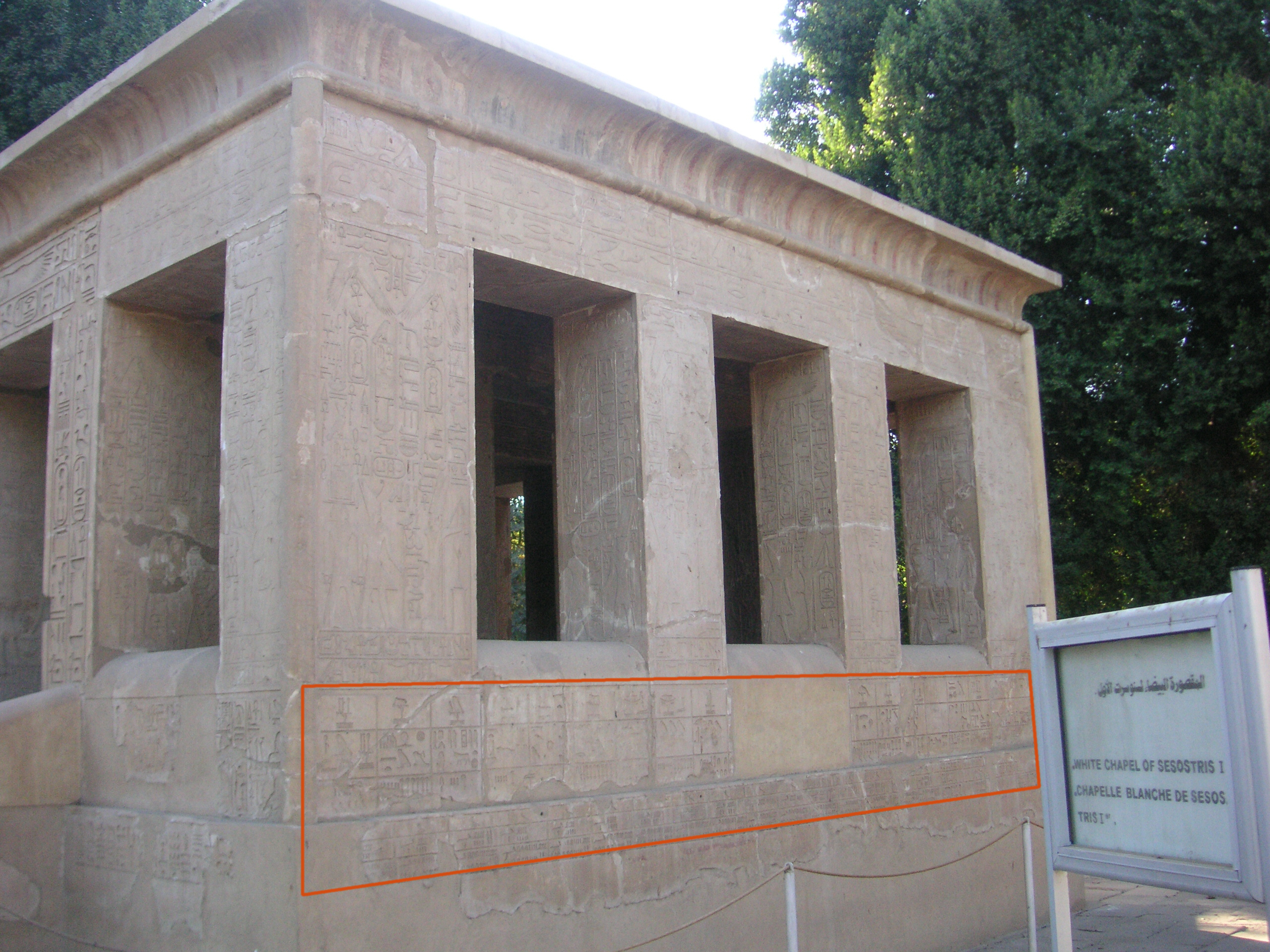 Nome-list of Sesostris I. (Senwoseret I.) at the White Chapel of Karnak